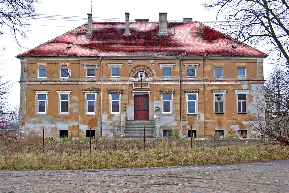 Palace in Stypułów